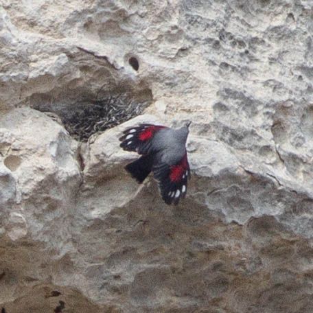 Wallcreeper Tichodroma muraria, Les Baux, southern France